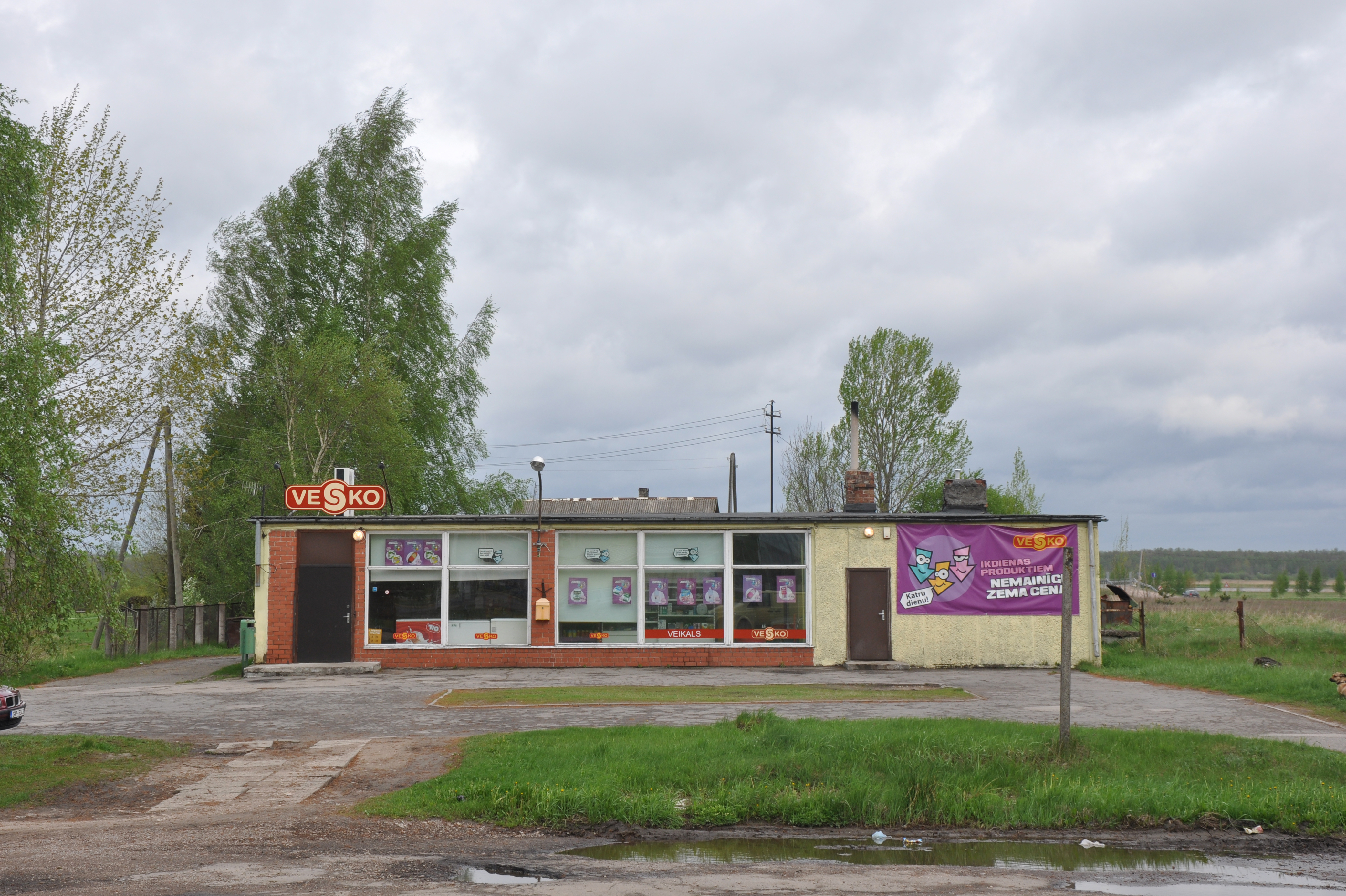 Shop "Vesko" in Tīreļi